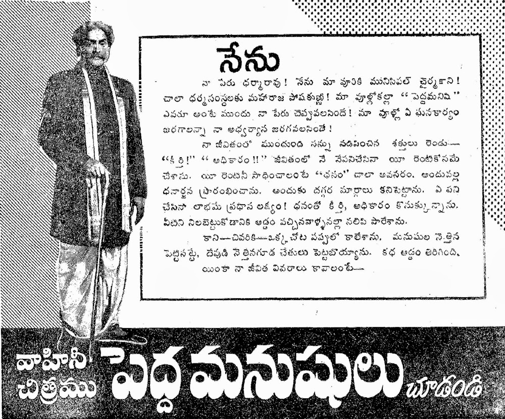 Pedda manushulu movie poster